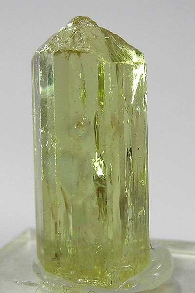 Apatite-(CaF) Locality: Cerro de Mercado Mine, Victoria de Durango, Cerro de los Remedios, Municipio de Durango, Durango, Mexico (Locality at ) Size: 2.5 x 0.9 x 0.8 cm. Apatite with gem quality goes. It has bright golden-yellow color, and is incredibly limpid and glassy through the center, with sharp, lustrous faces. Typical somewhat rough termination.